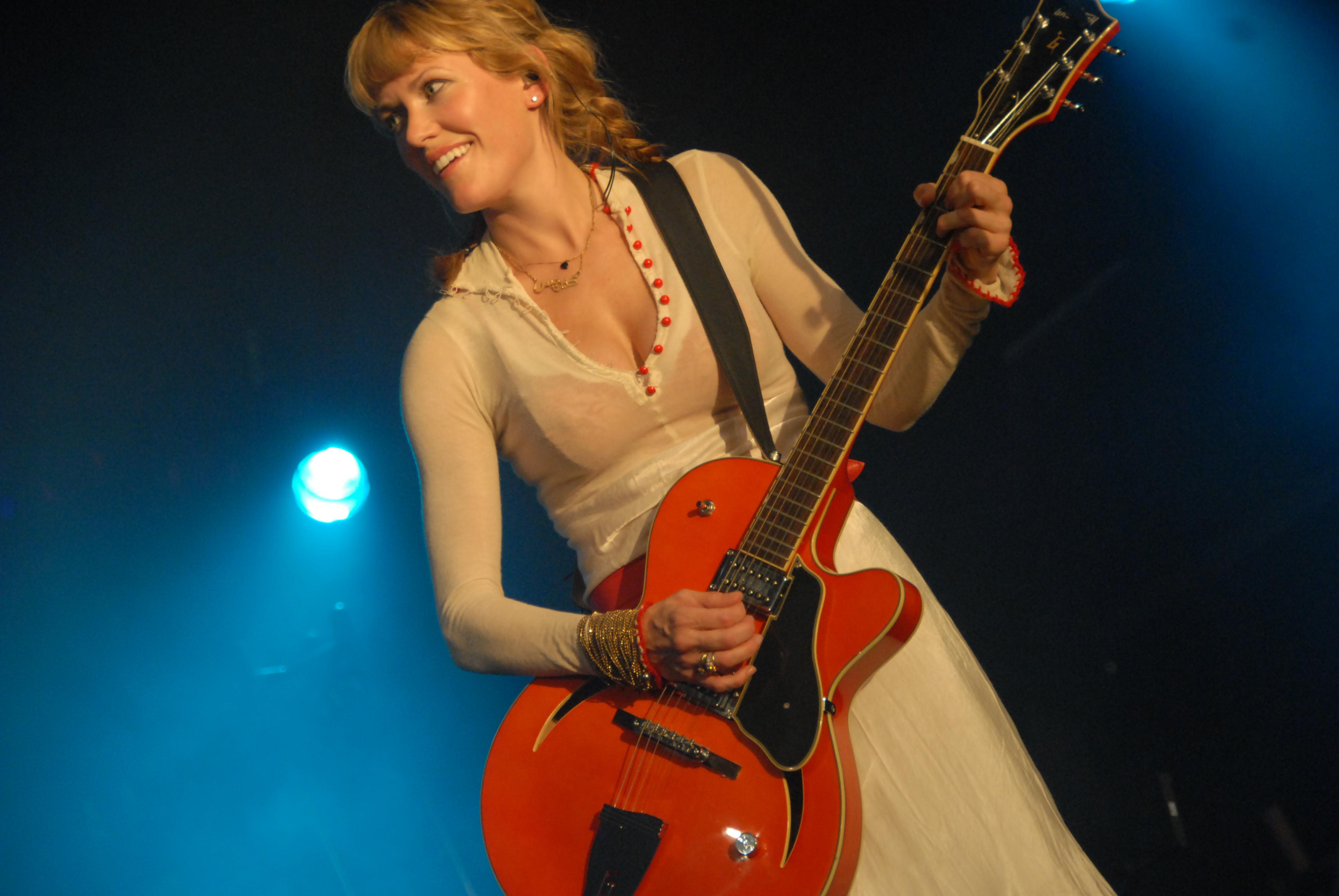 Cambridge Festivals 2001-2014 Cerys Matthews